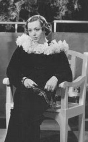 Nelly Quel- actriz y cantante argentina